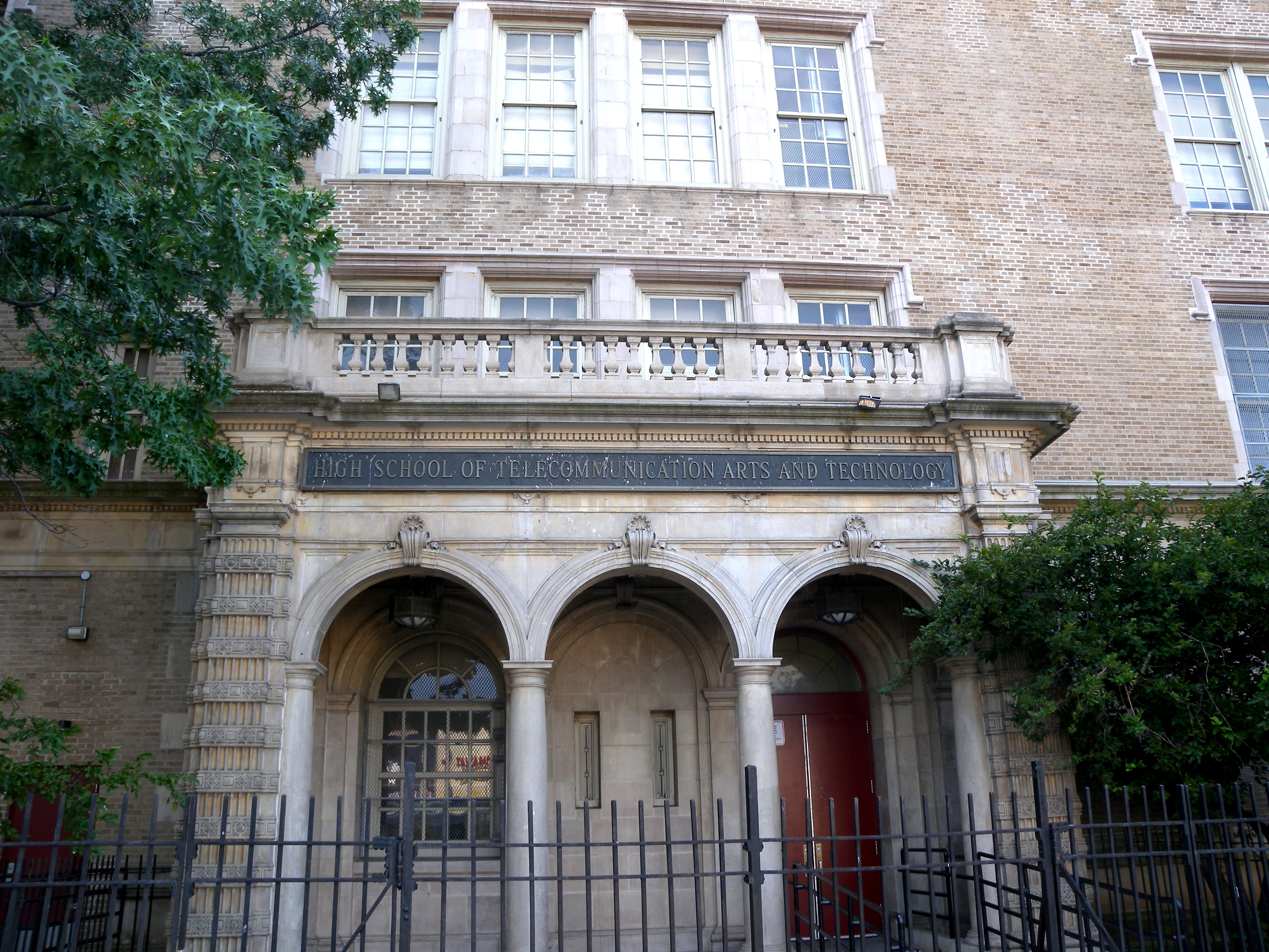 Looking northwest at High School of Telecommunicatins on a sunny afternoon.